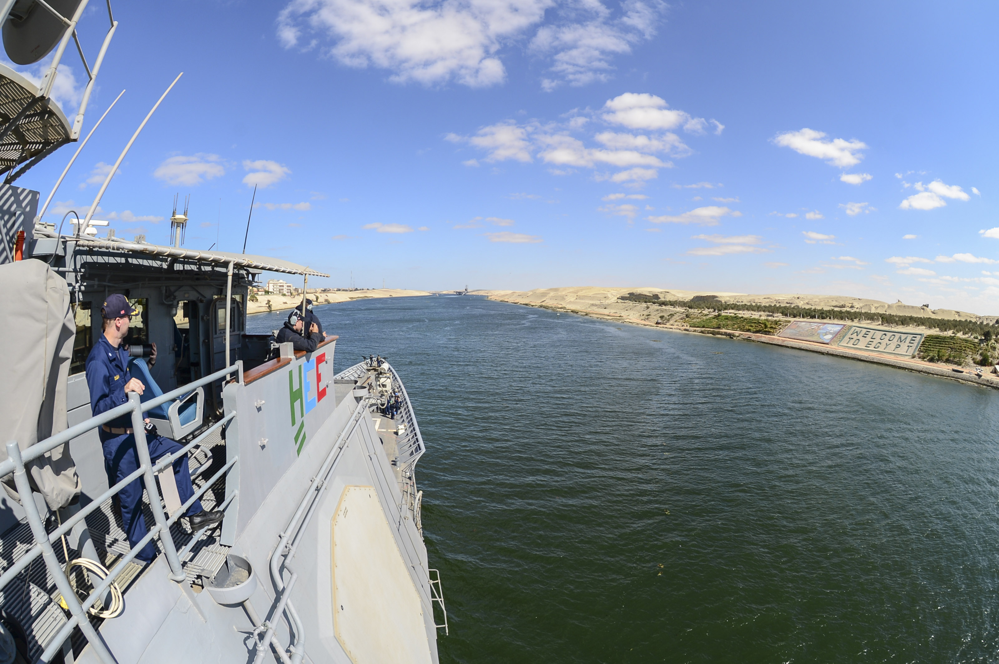 SUEZ CANAL (Oct. 20, 2013) The guided-missile cruiser USS Monterey (CG 61) transits the Suez Canal. Monterey is deployed in support of maritime security operations and theater security cooperation efforts in the U.S. 6th Fleet area of operation. (U.S. Navy photo by Mass Communication Specialist 3rd Class Billy Ho/Released) 131020-N-QL471-100 Join the conversation navylive.dodlive.mil